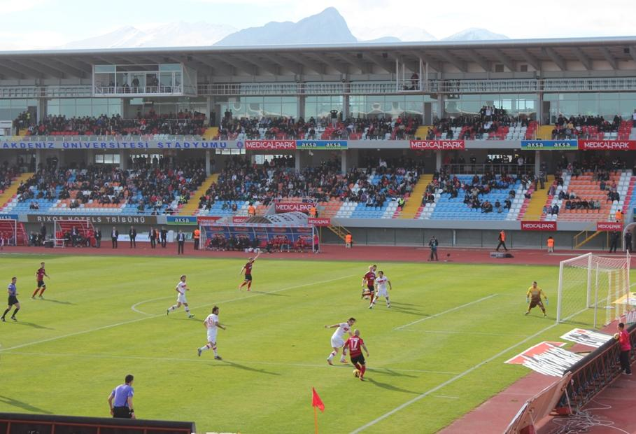 Turkish Super League match: Antalyaspor 3-5 Gençlerbirliği